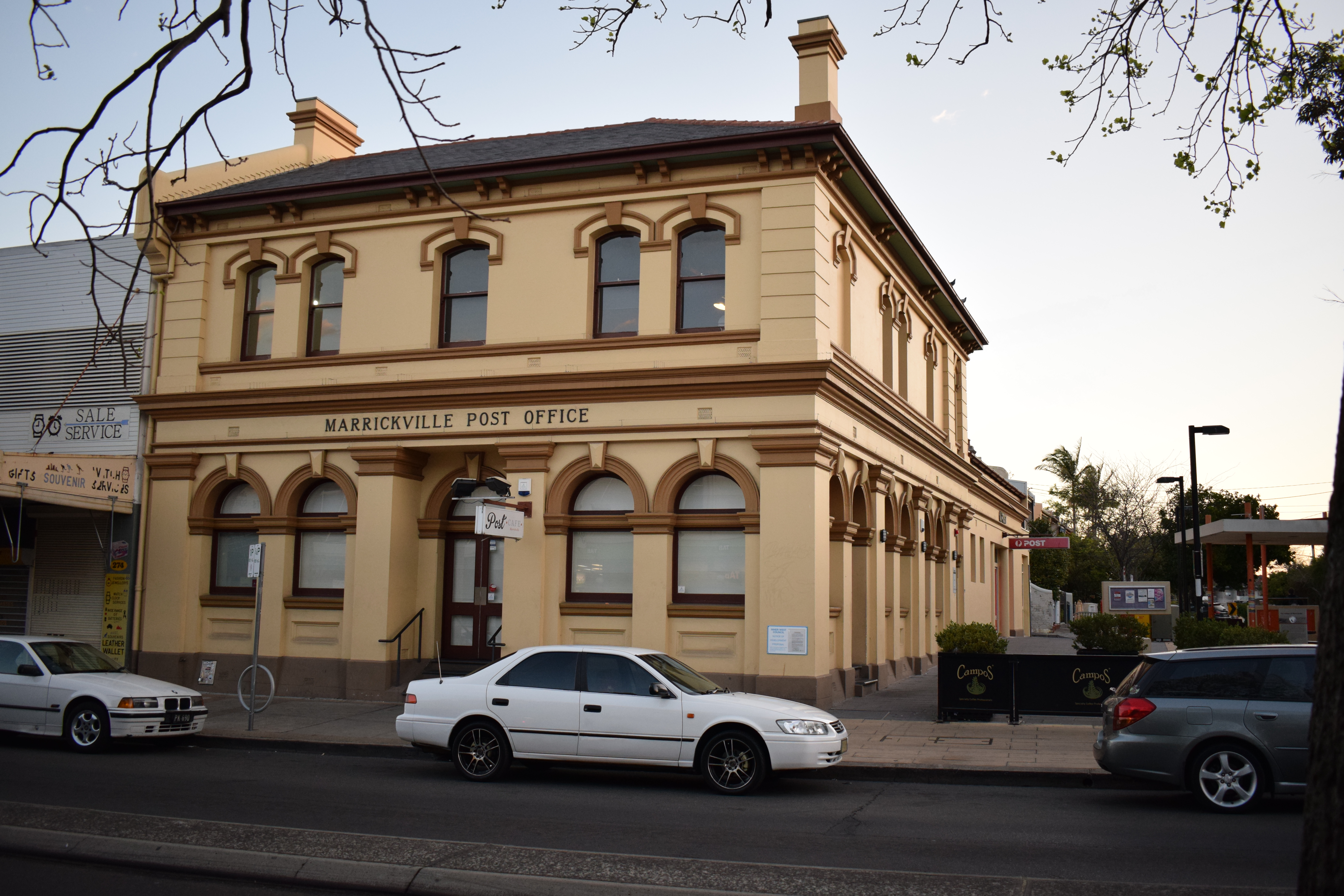 View of the Marrickville Post Office from Marrickville Road. The modern post office can be seen to the rear of the building. The front of the building now houses a cafe.